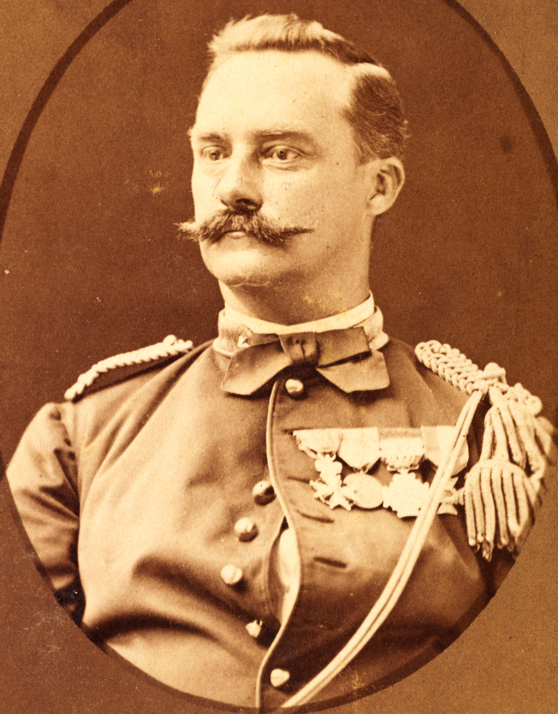 J.A. Vetter